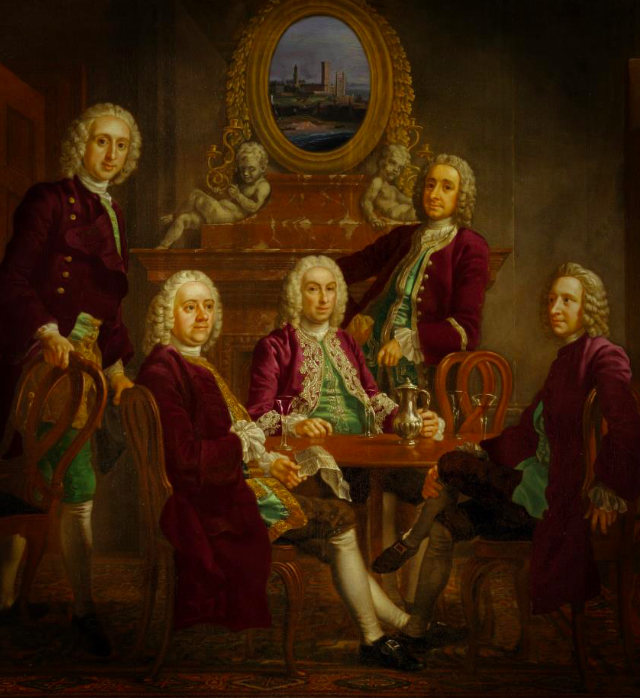 The Founders of The Kensington Club circa 1740. The Laird Balgonie sits in the centre, surrounded by the first members of the Kensington Club. Above the fireplace is a cameo of St Andrews.